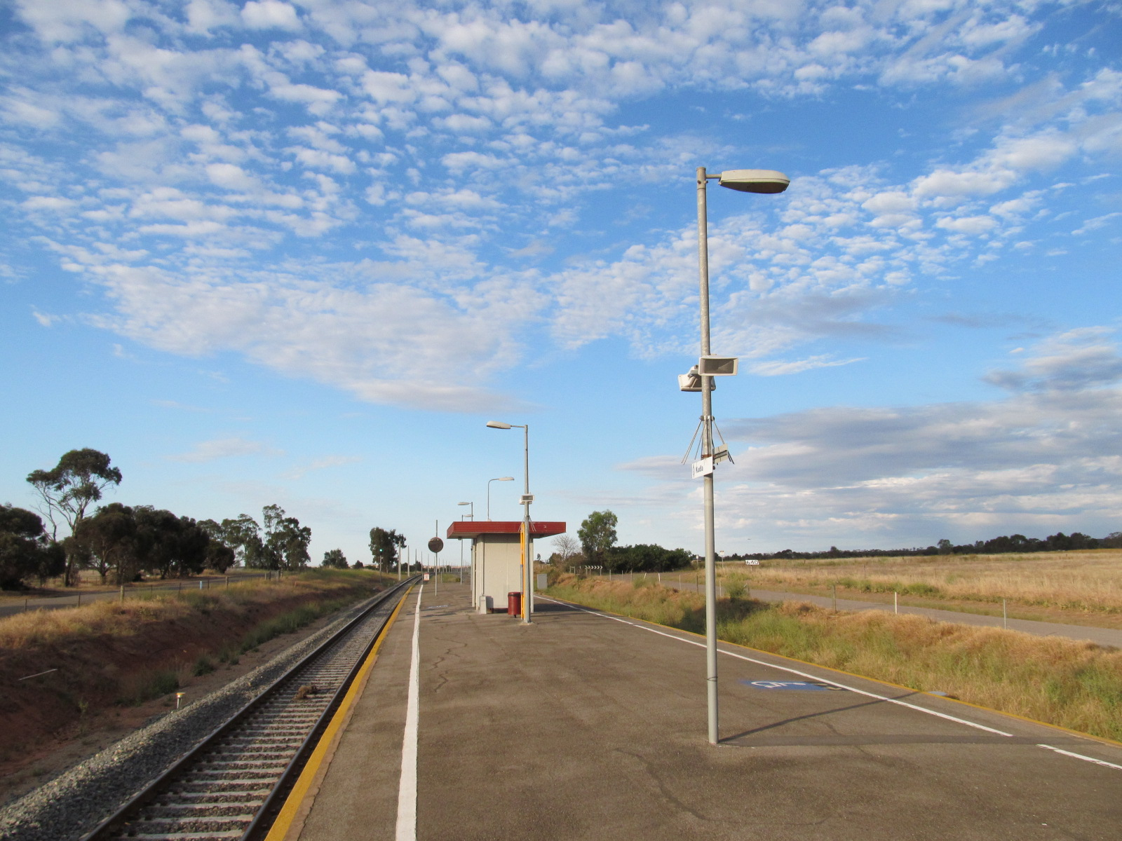 Kudla railway station between Munno Para and Gawler, facing north.